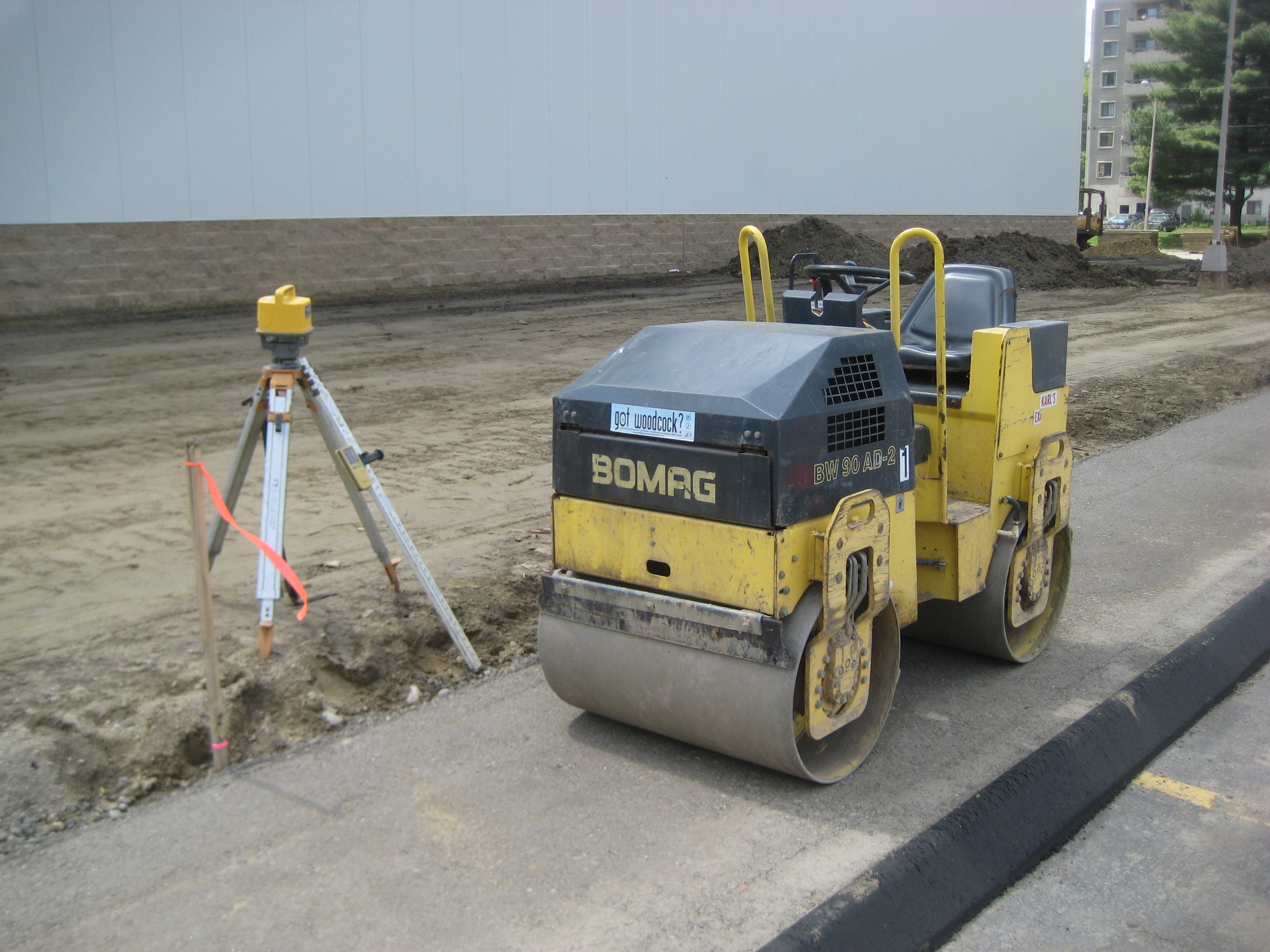 A road roller, and a rotating construction laser